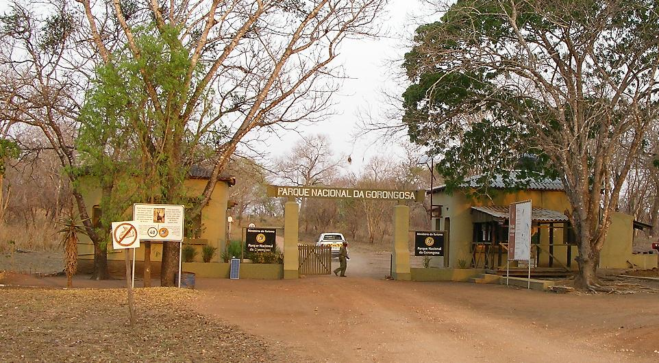 Entrance to Gorongosa National Park, Mozambique. Location indicated by a Garmin 60CSx handheld GPS, altimeter reading: 137 meters